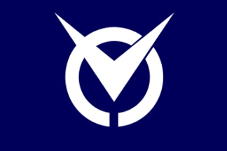 Flag of Satosho Okayama